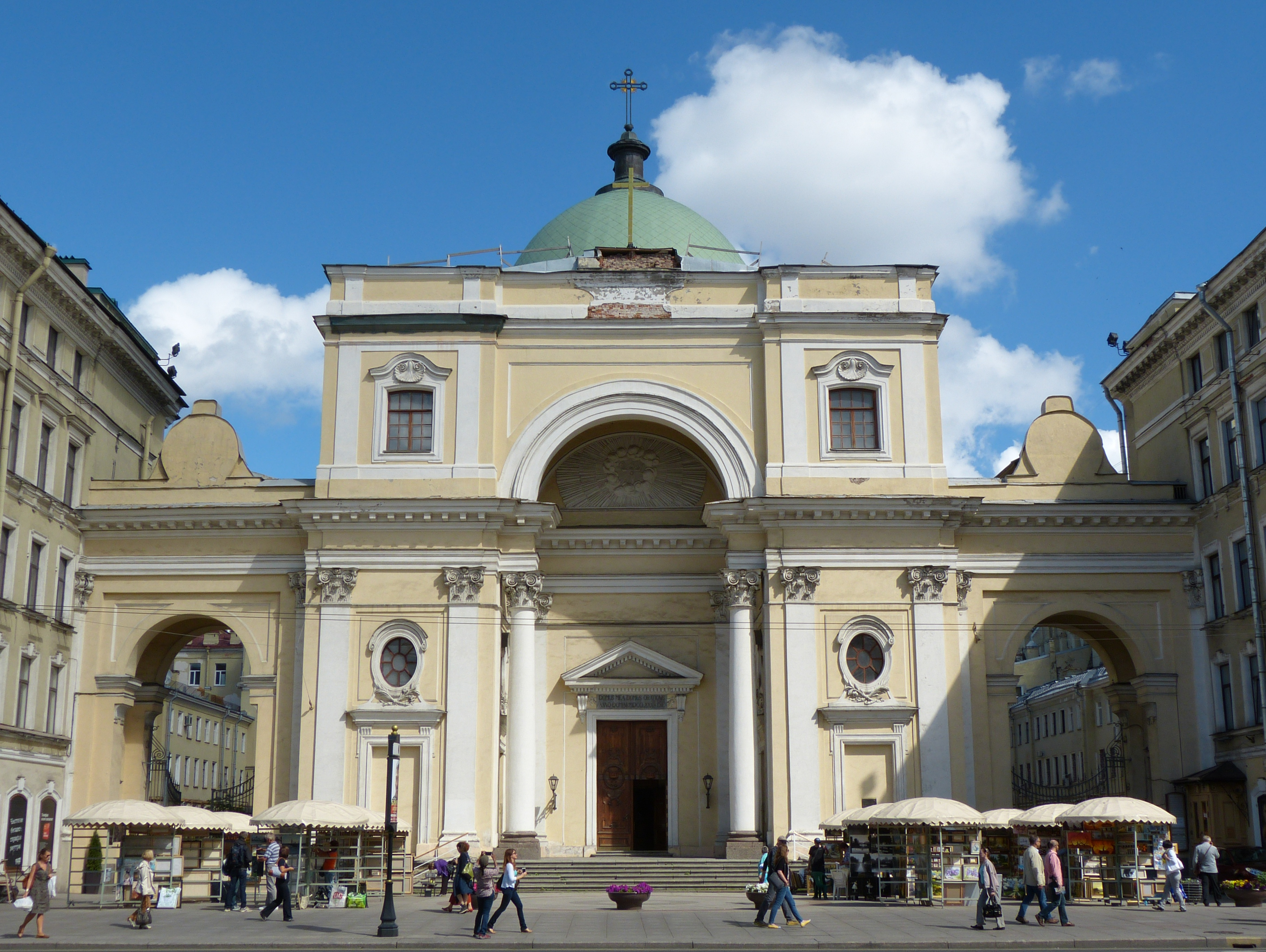 Catholic Church of St. Catherina, Sanct Petersburg, Russia